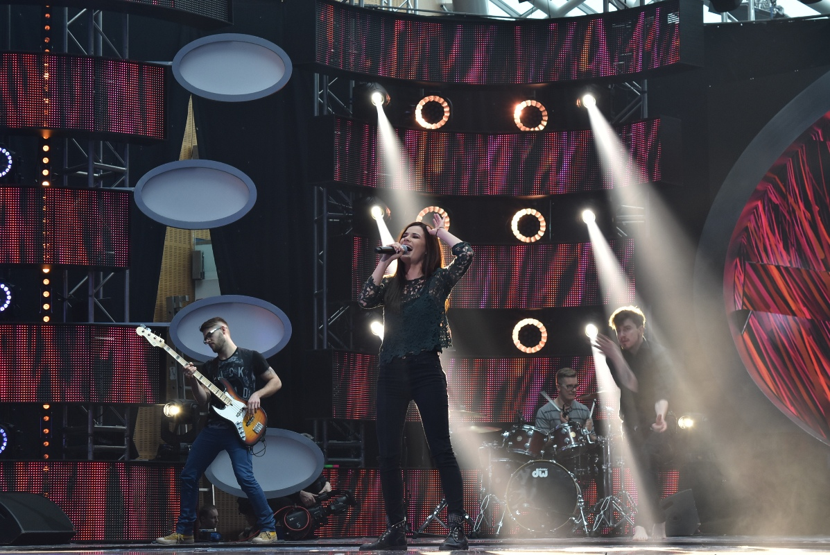 Polish singer Natalia Szroder during rehearsals for Polish National Final of ESC 2016